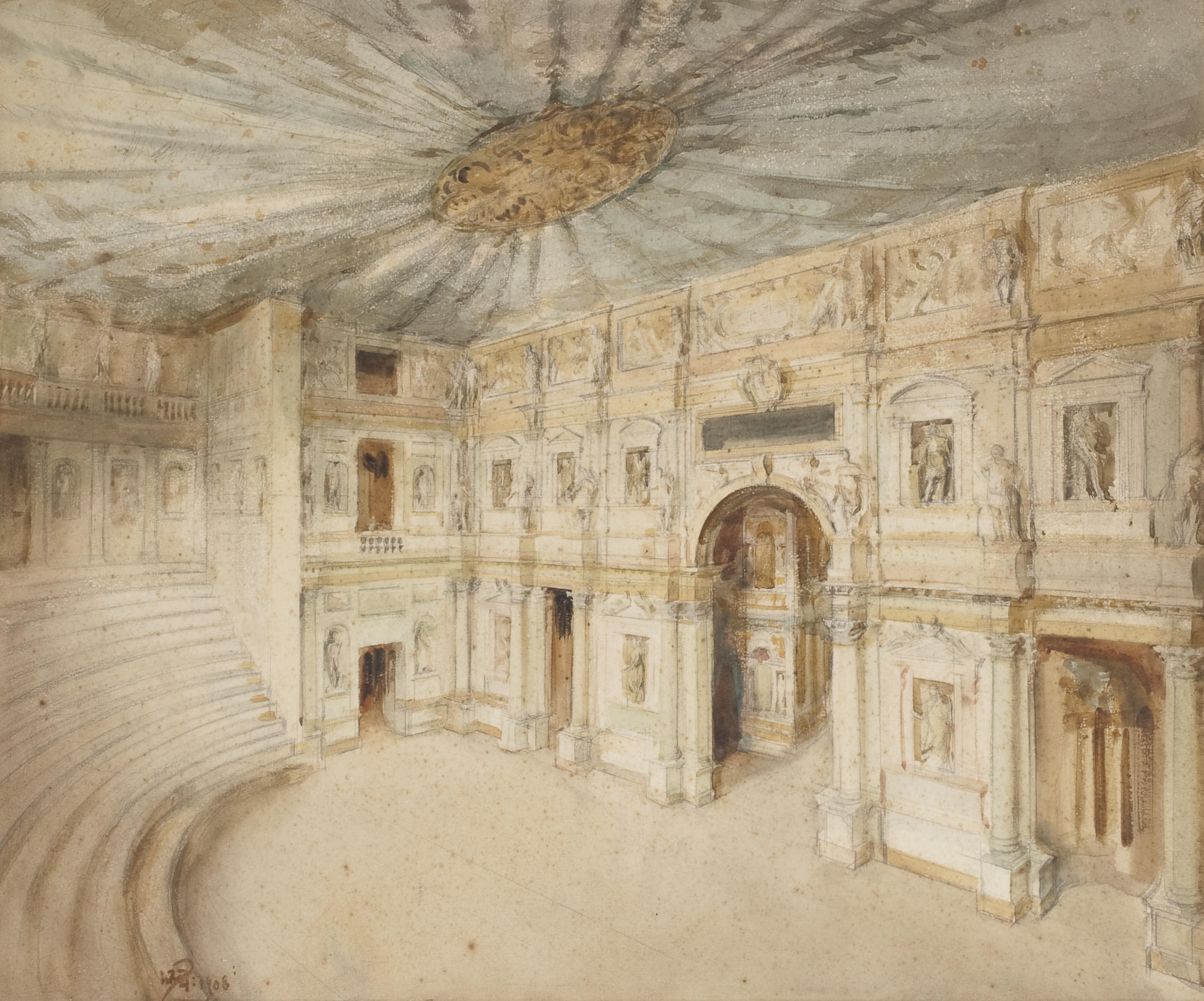 Teatro Olimpico, Vincenza; dated '1908' (lower left), watercolor and pencil on paper. 48.3 x 58.3 cm